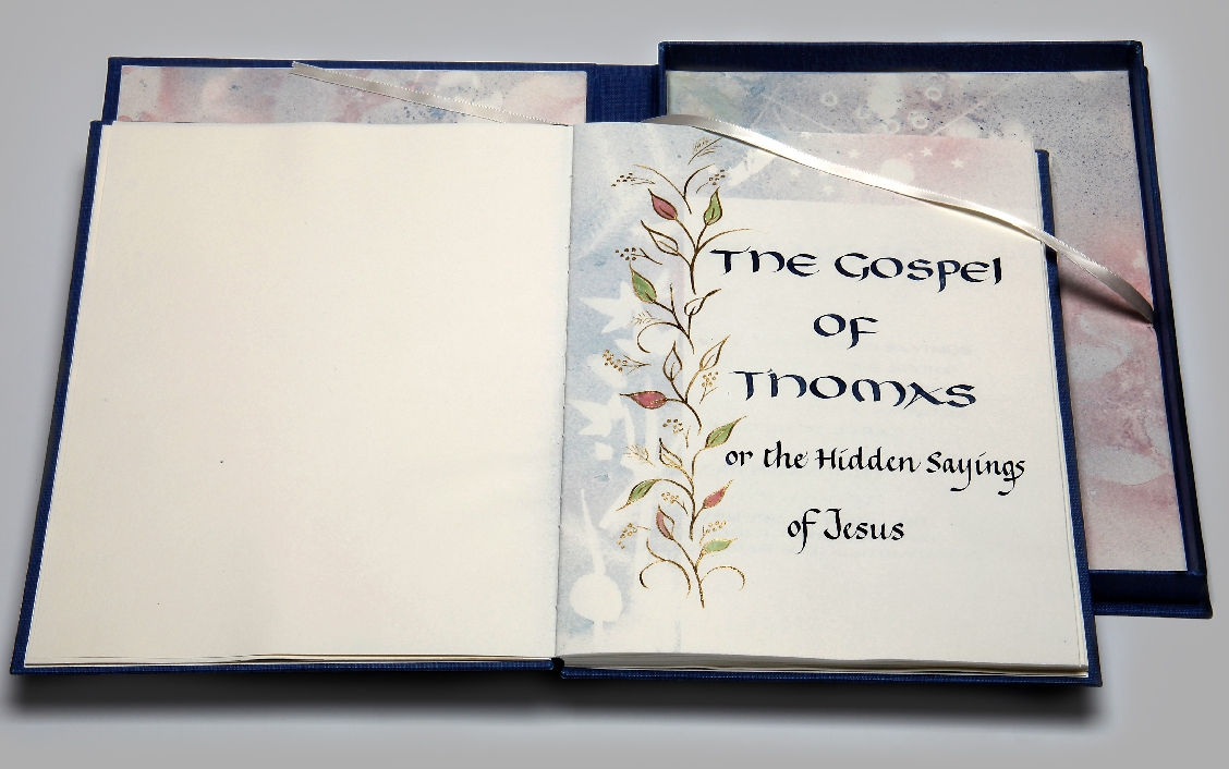 Gospel of Thomas Manuscript 2010: calligraphy and artwork by Carol W. Nichols. Dimensions: 9 by 12 by 1 inches, Twinrocker handmade paper, 65 watercolor and/or 23 karat gold illuminations. Translation from the Coptic (circa 350 CE): Marvin Meyer, copyright 2005, with permission from Harper Collins, San Francisco. Purchase a copy of "An Illustrated and Illuminated Manuscript of the Gospel of Thomas" by C.Nichols at